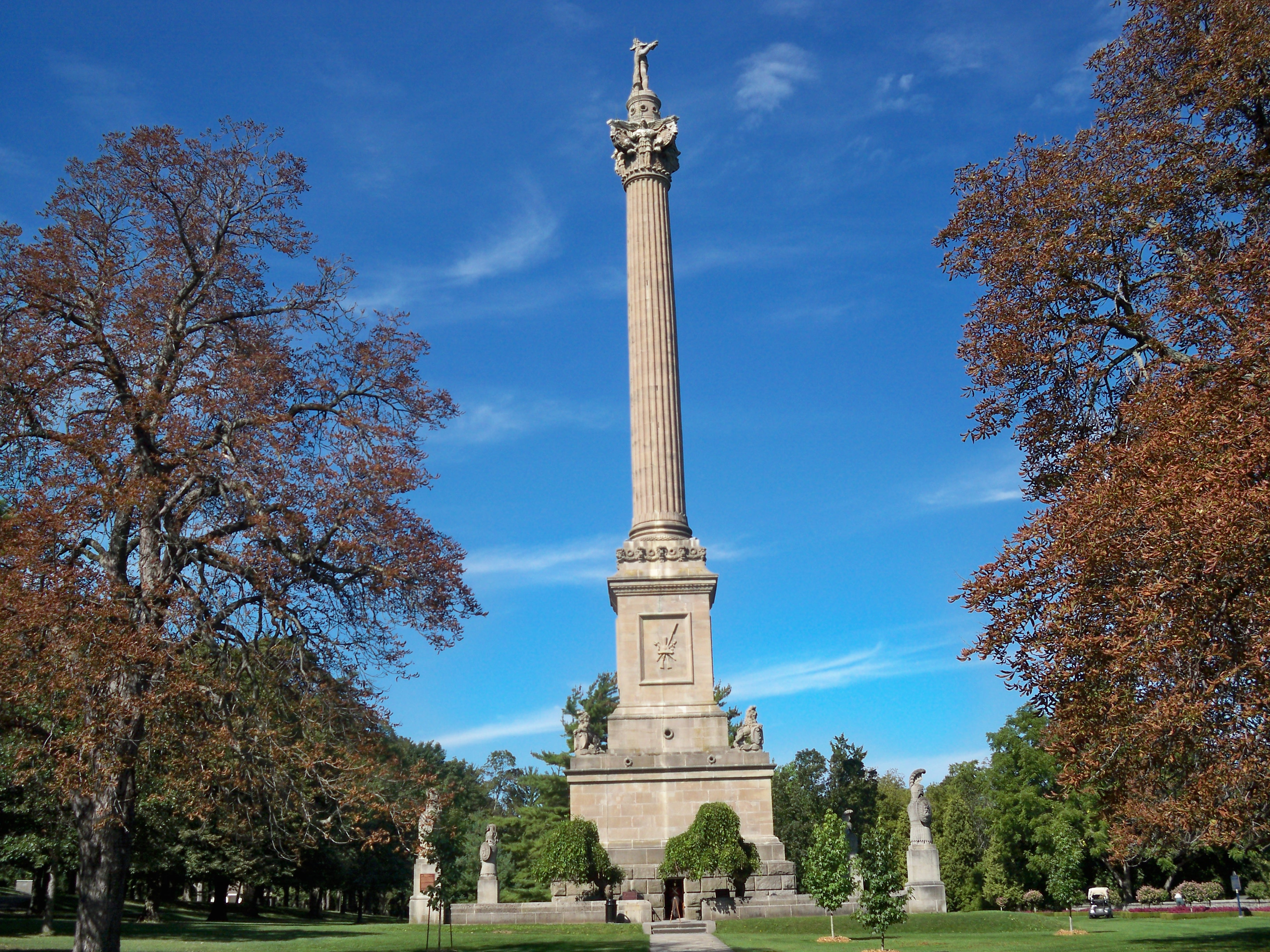 A monument to General Issac Brock, built at Queenston Heights, the site of a famous battle in the War of 1812 in which Brock sacrificed himself. The monument is a column with a statue of the general standing atop it.